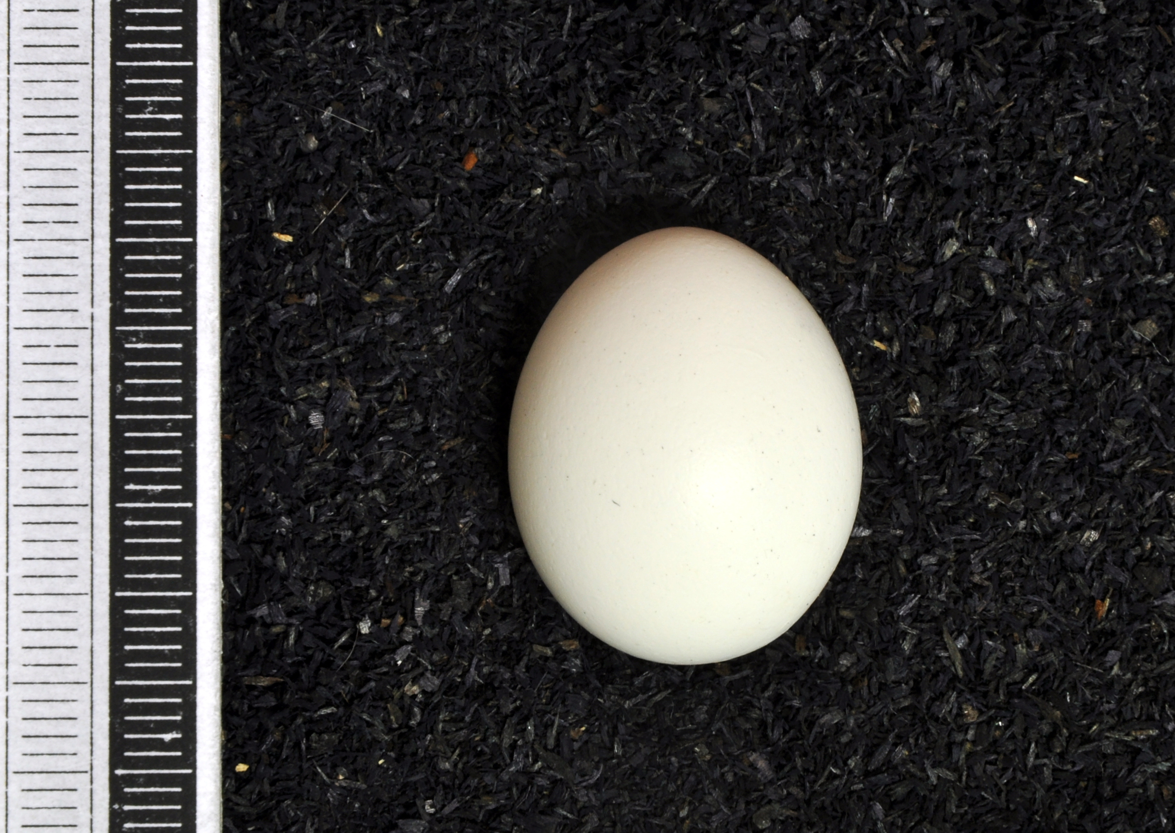 Cockatiel Nymphicus hollandicus , egg, Coll. Museum Wiesbaden